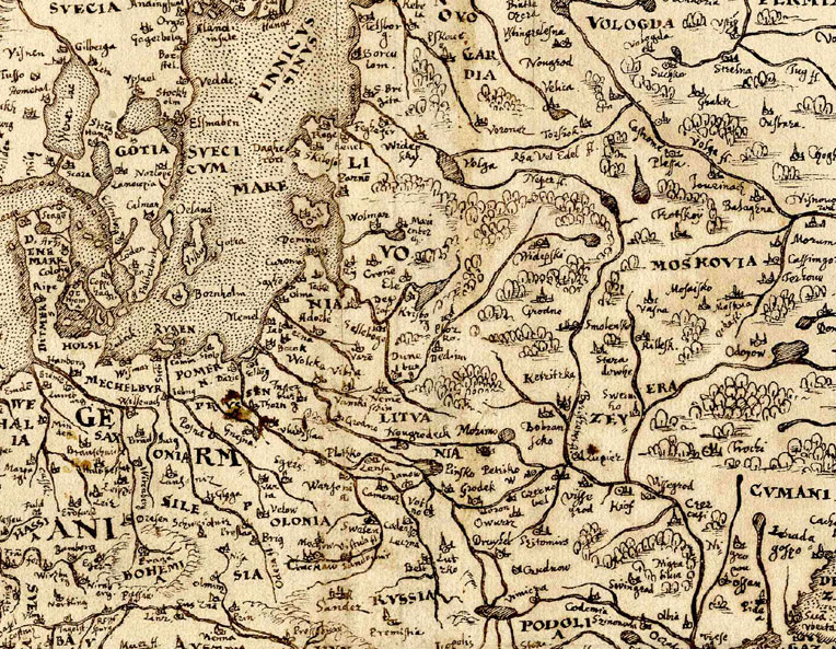 Map of Europe, drawing of c. 1570